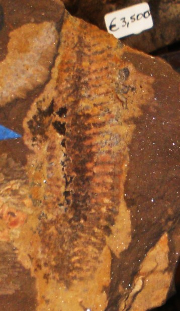 Fossil of Myoscolex, an extinct animal- Took the photo at Fossil Show, Munchen 2011